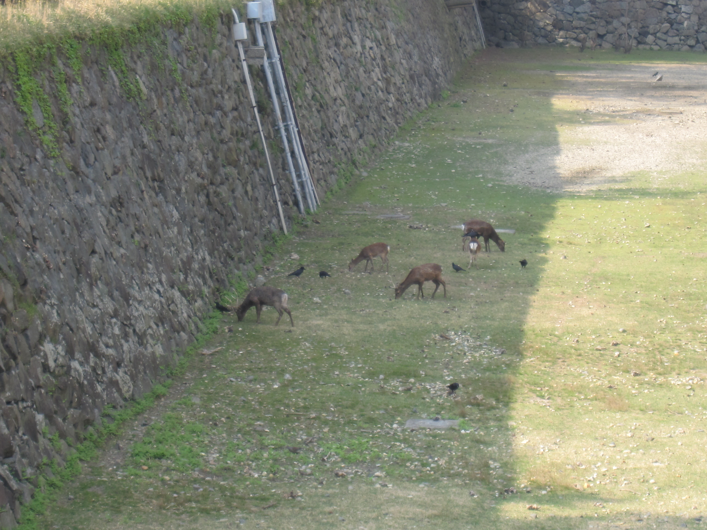 Deer grazing in the dry moat of Nagoya Castle, next to the southwestern turret.